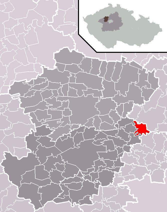 Location of Otvovice municipality within Kladno District and administrative area of Kladno as a Municipality with Extended Competence.